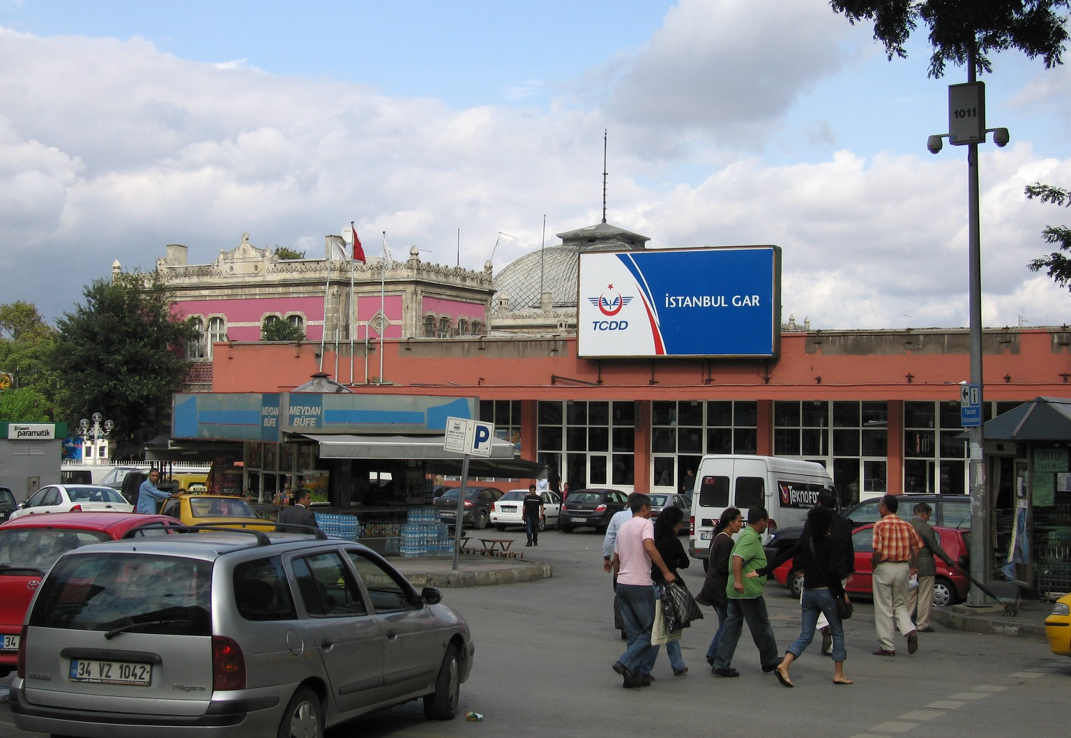 Modern main entrance of Sirkeci train station in Istanbul, Turkey